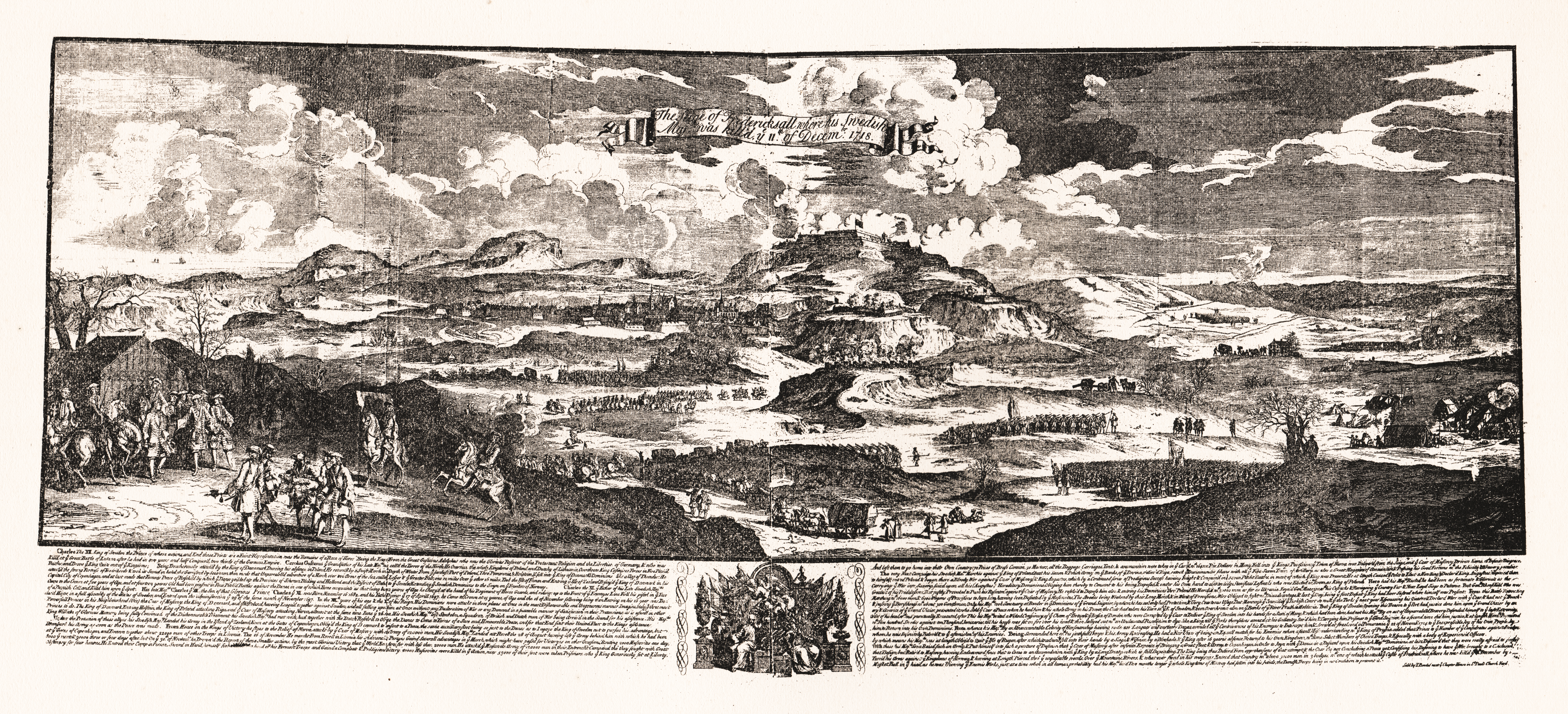 Siege of Fredriksten